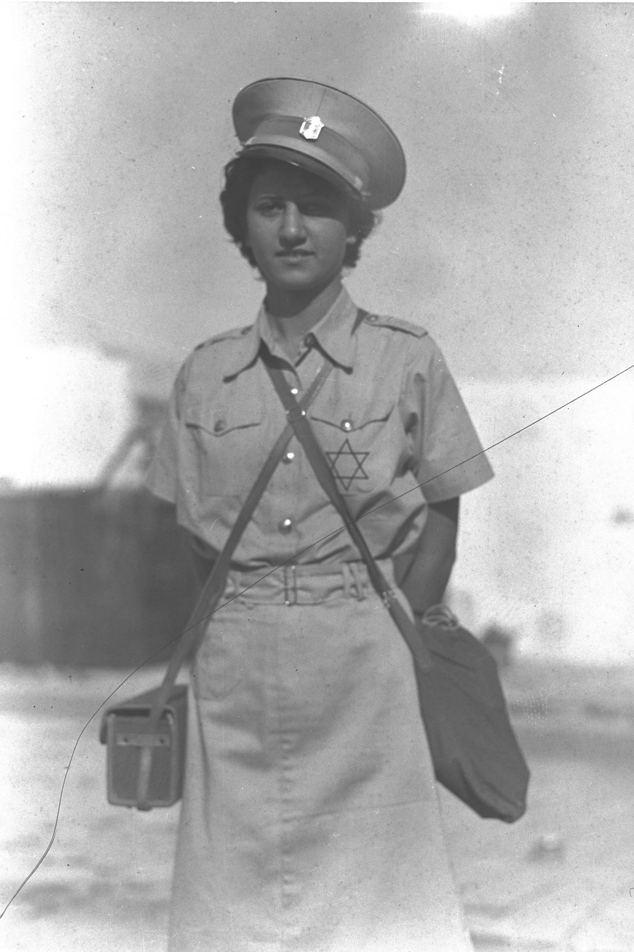 A MAGEN DAVID ADOM WORKER IN THE TEL AVIV CIVIL DEFENSE. מתנדבת של מגן דוד אדום במשמר האזרחי.